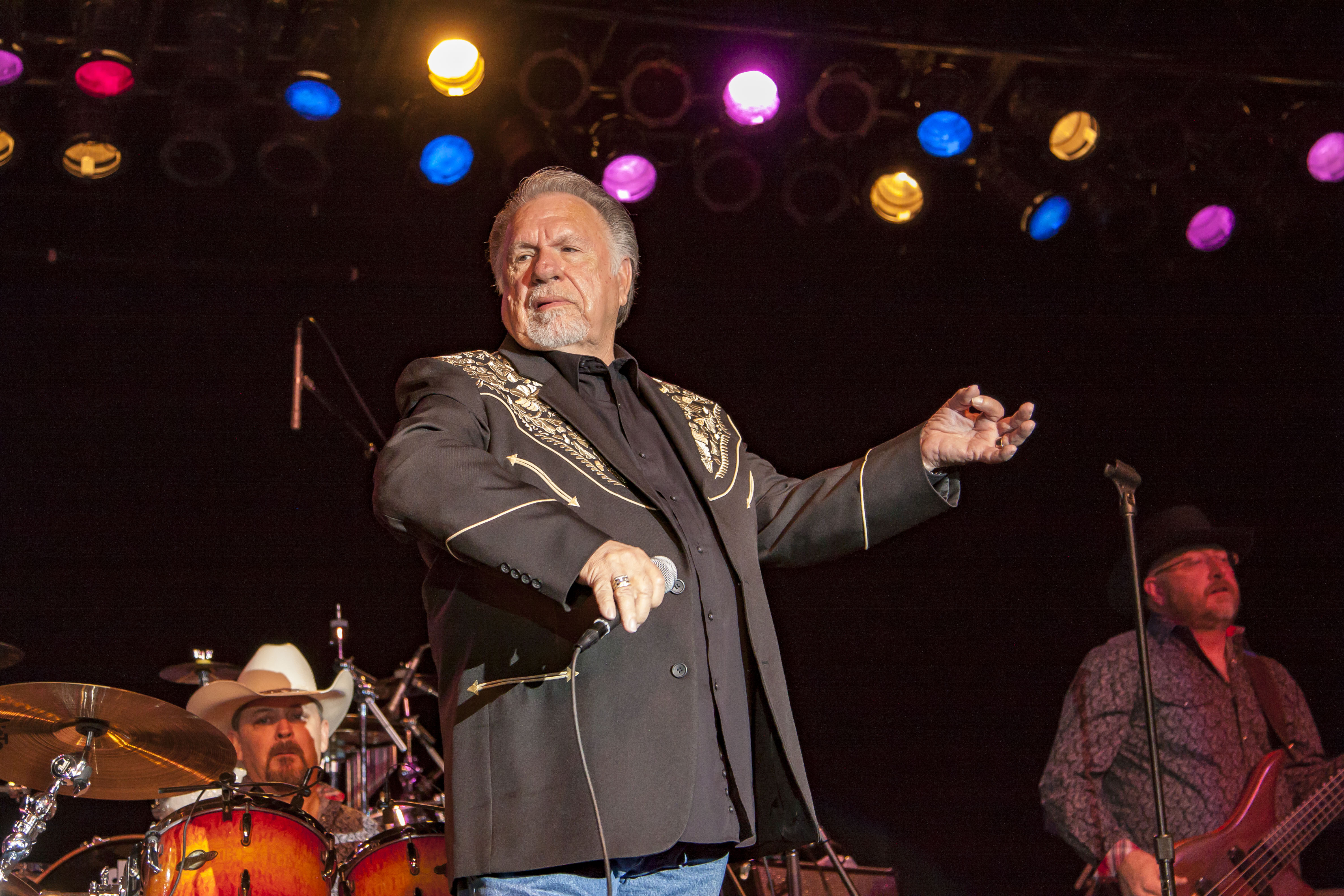 Gene Watson, Ruidoso, NM Sep 2016